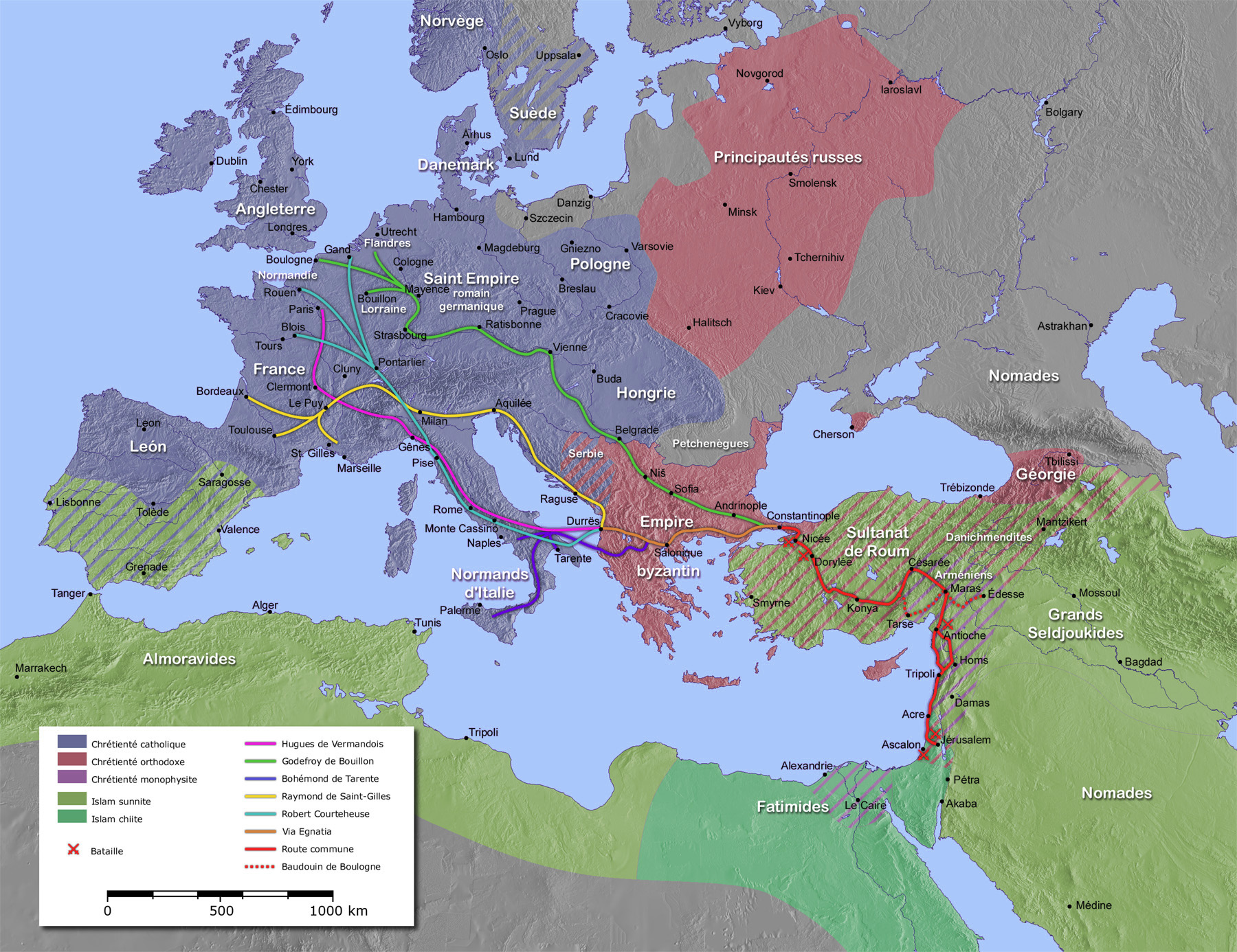 Map of the first crusade.